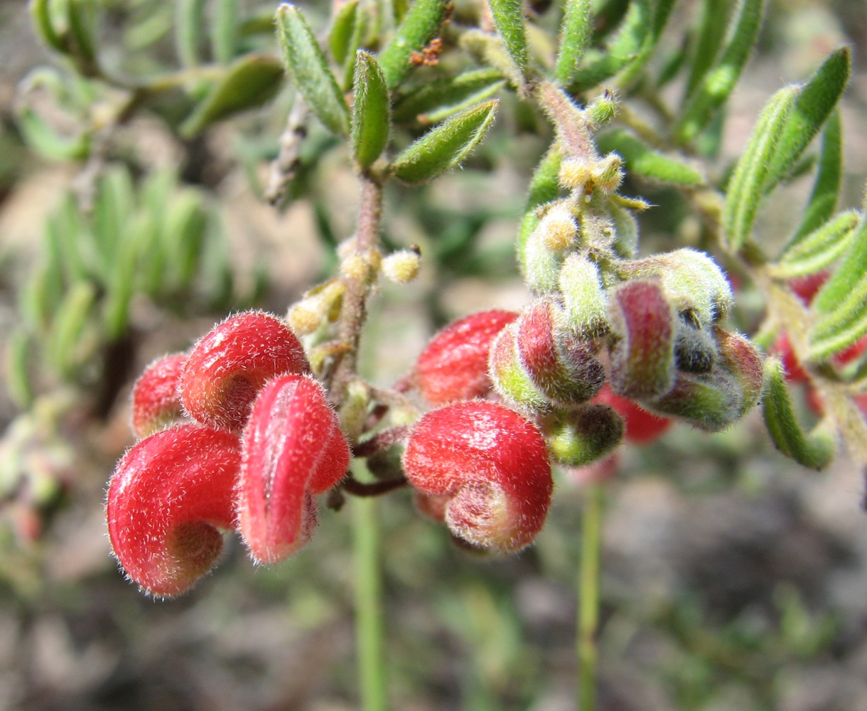 Grevillea alpina, Paddys Ranges State Park, Victoria, Australia